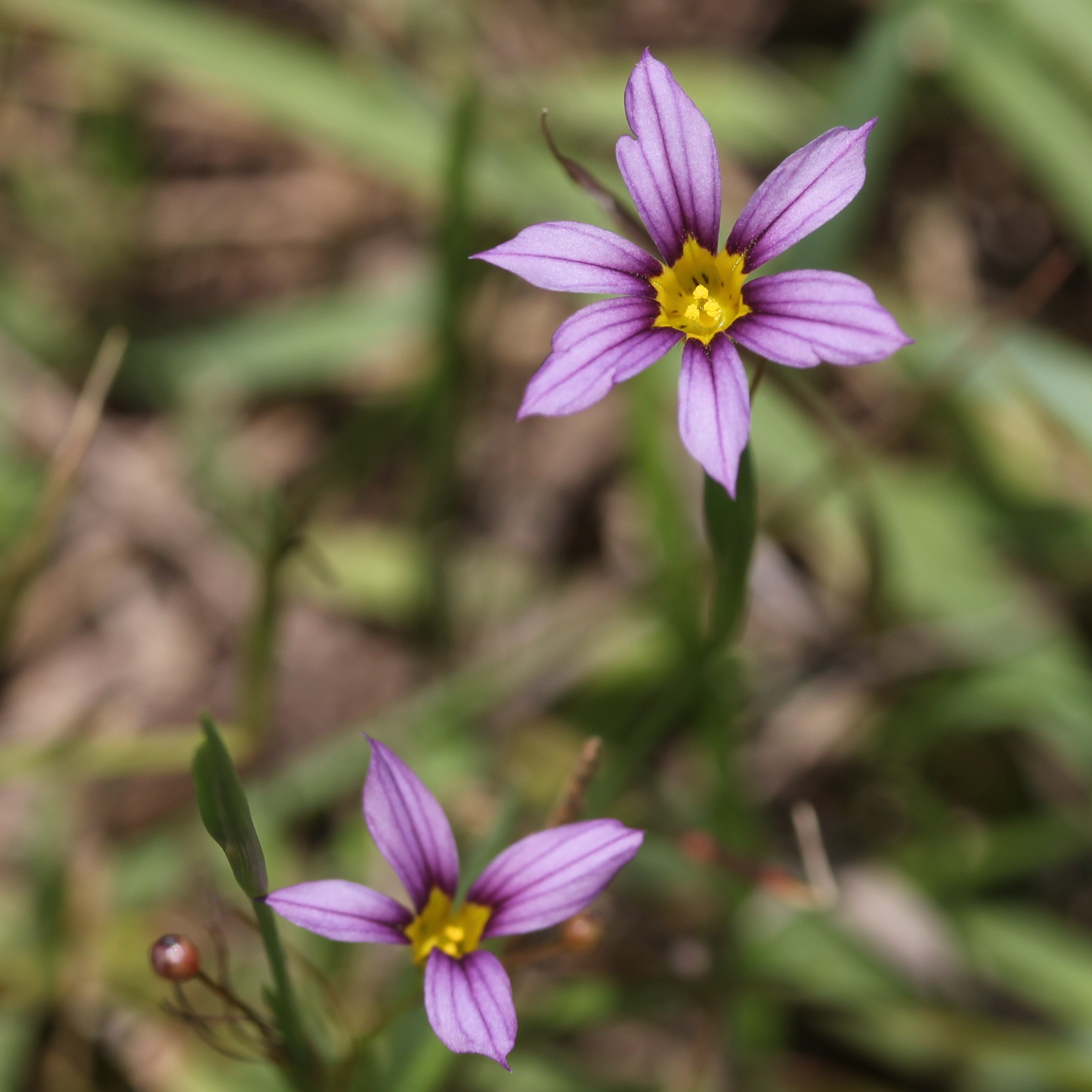 Sisyrinchium rosulatum, in Mount Ibuki, Maibara, Shiga prefecture, Japan.